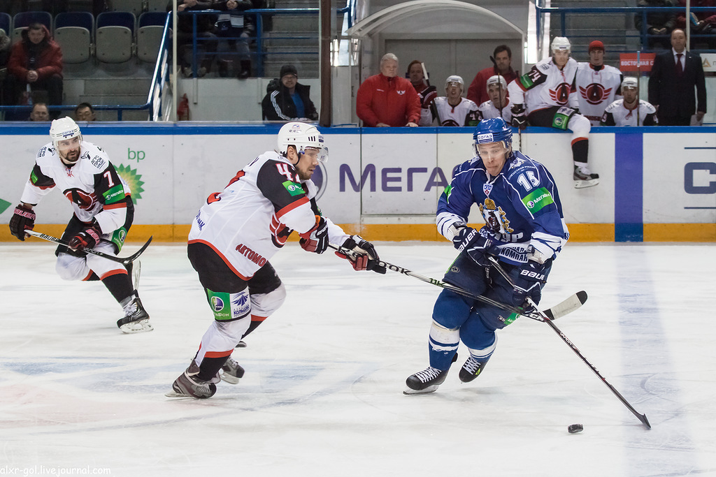 Amur Khabarovsk forward Juha-Pekka Hytönen (in blue) and Avtomobilist Yekaterinburg defencemen Jere Karalahti (from the left) and Denis Sokolov (at center) during KHL game on March 11, 2013.